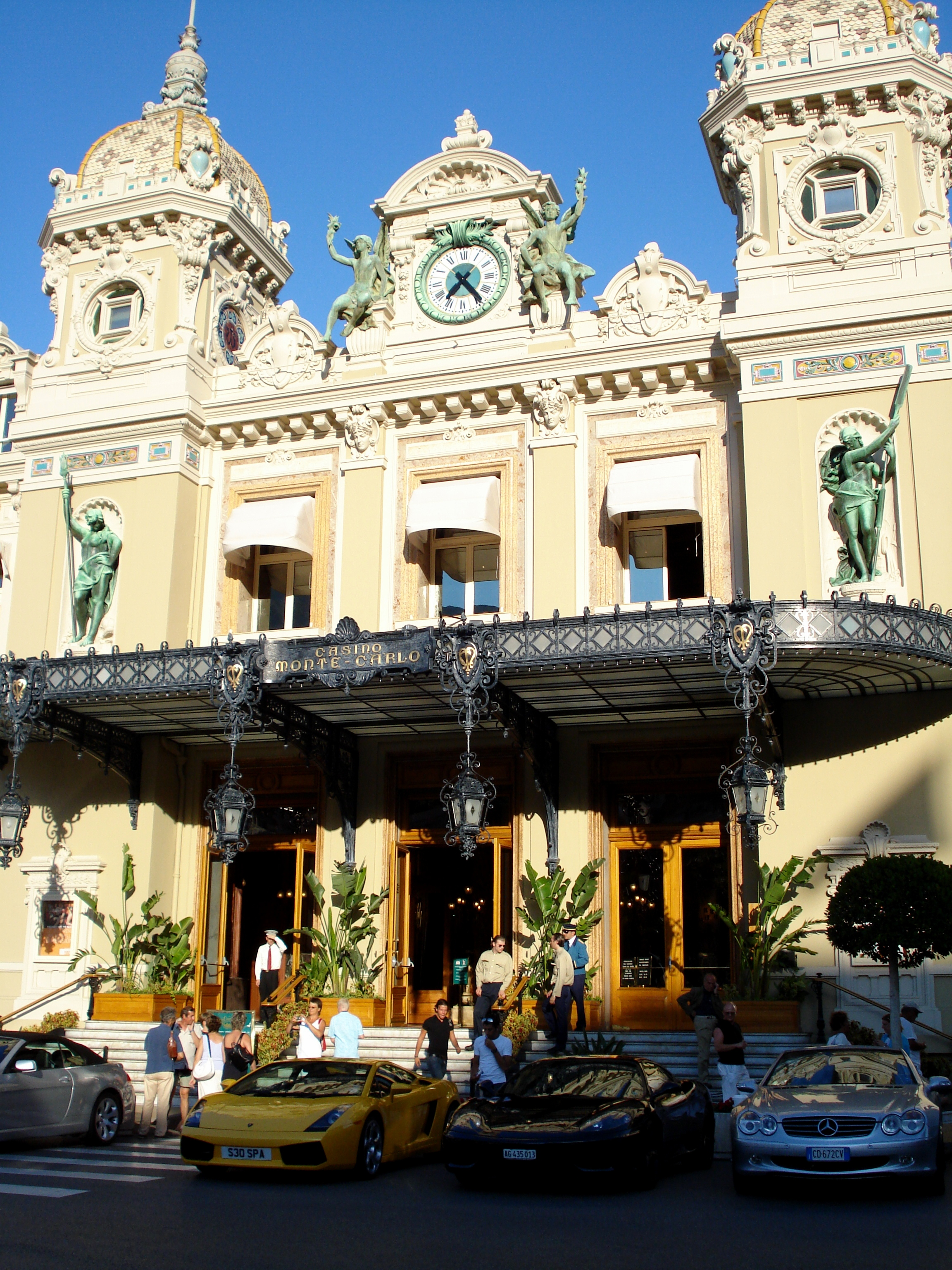 Historic casino at Monte Carlo